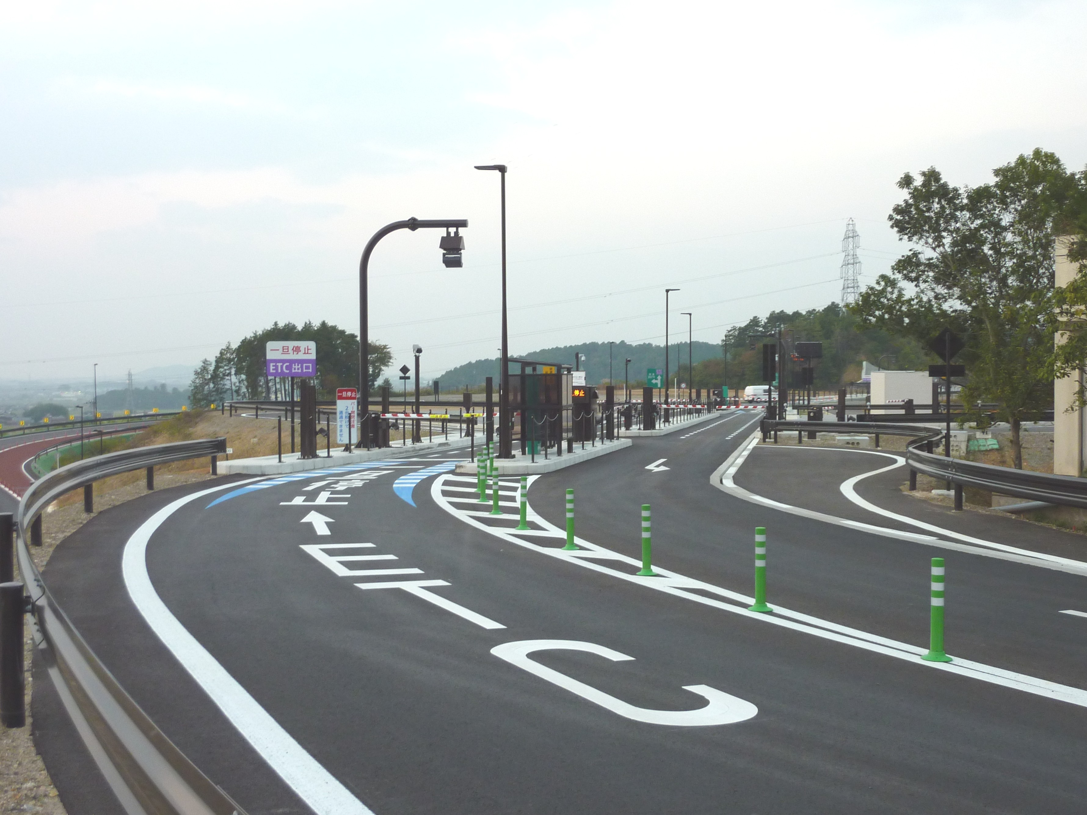 Exit of Kotosanzan Smart Interchange